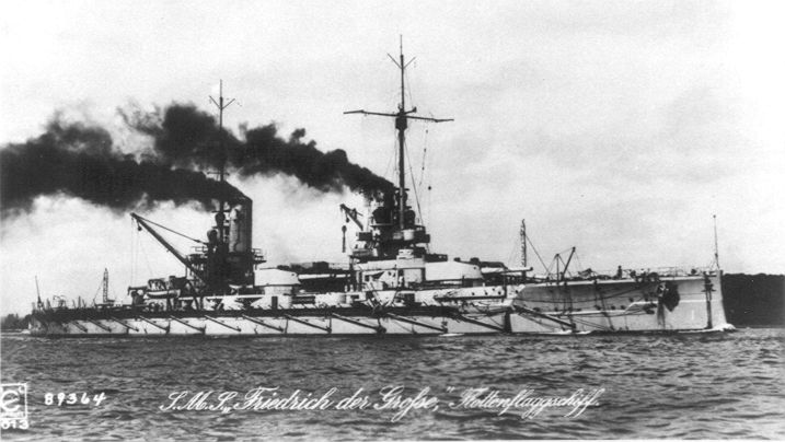 The German Imperial Navy Kaiser-class battleship SMS Friedrich der Große.